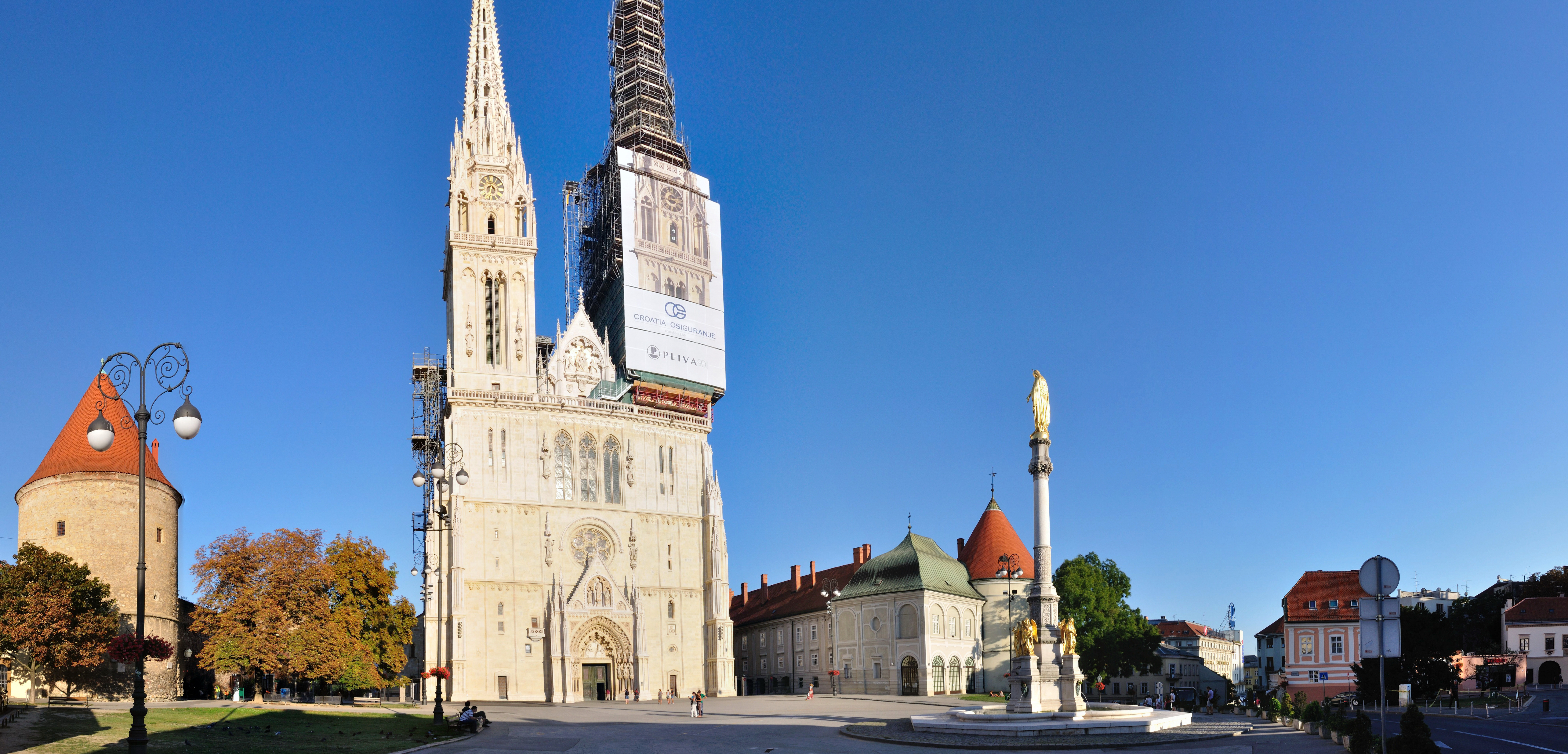 Cathedral square in Zagreb, Croatia